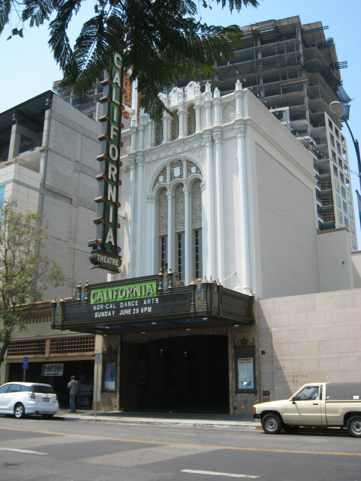 345 South First Street, San Jose, CA 1200 Seats Architect Weeks & Day Built 1927 THSA Conclave 2008